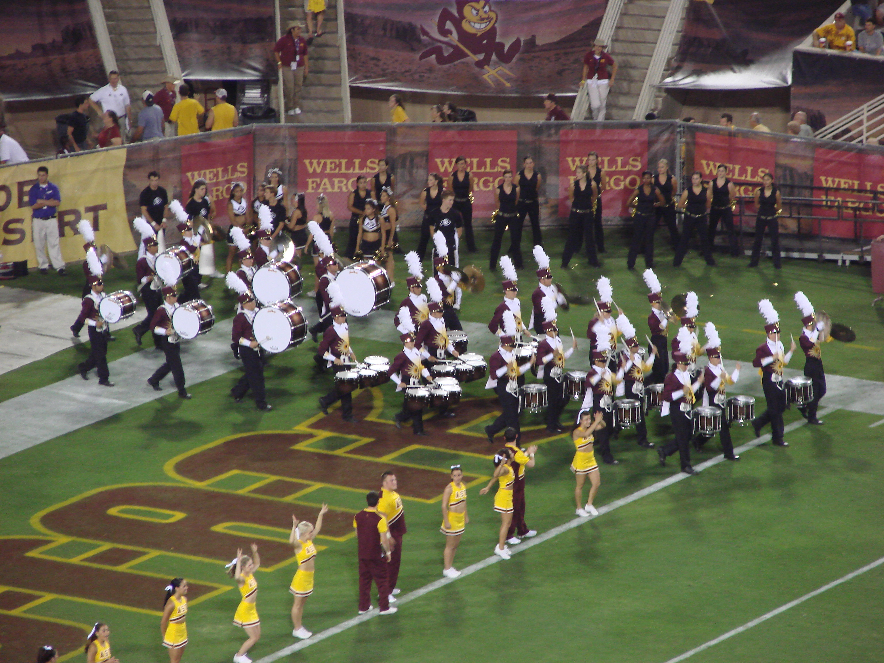 SDMB Battery getting ready to start of Pregame with their drum cadence.